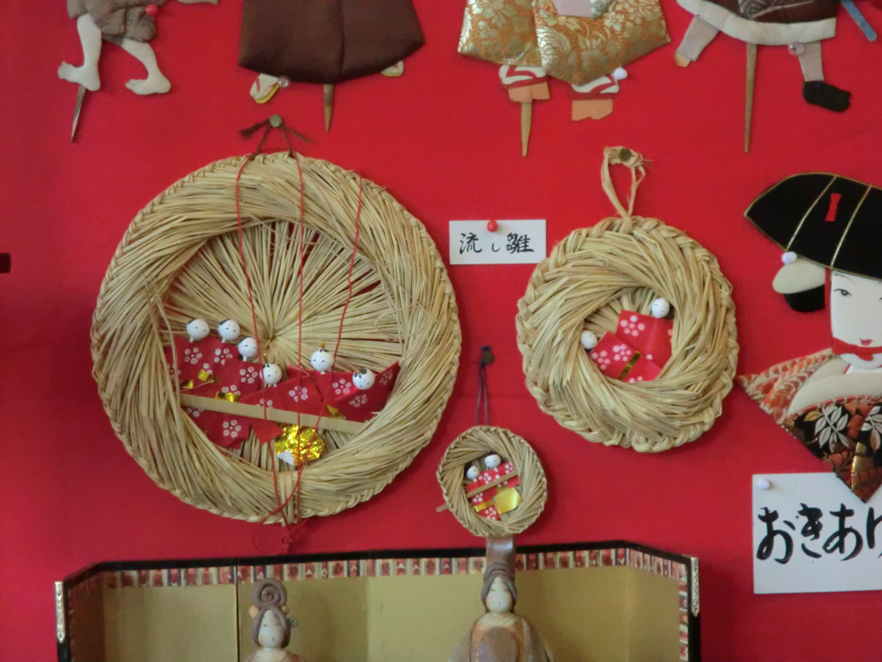 "Nagashi Bina"(kind of Hina matsuri doll).Photographed in Ukiha,Fukuoka,Japan.